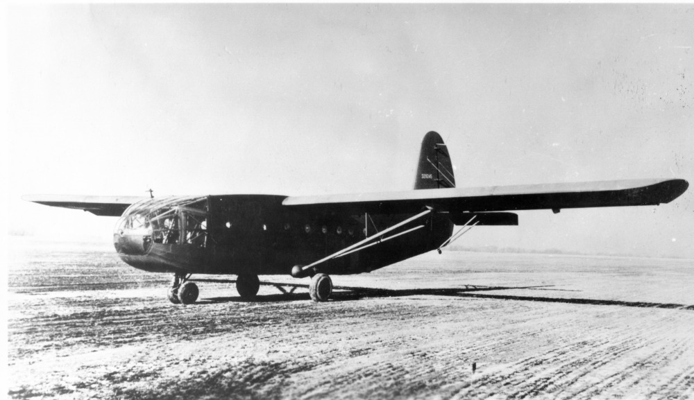 PictionID:40971612 - Title:Waco CG-13A 43-28245 - Catalog:15_002857 - Filename:15_002857.tif - PictionID:40971474 - Title:Lancer Republic YP-43 - Catalog:15_002846 - Filename:15_002846.tif - Image from the Charles Daniels Photo Collection album "US Army Aircraft."----PLEASE TAG this image with any information you know about it, so that we can permanently store this data with the original image file in our Digital Asset Management System.----SOURCE INSTITUTION: San Diego Air and Space Museum Archive